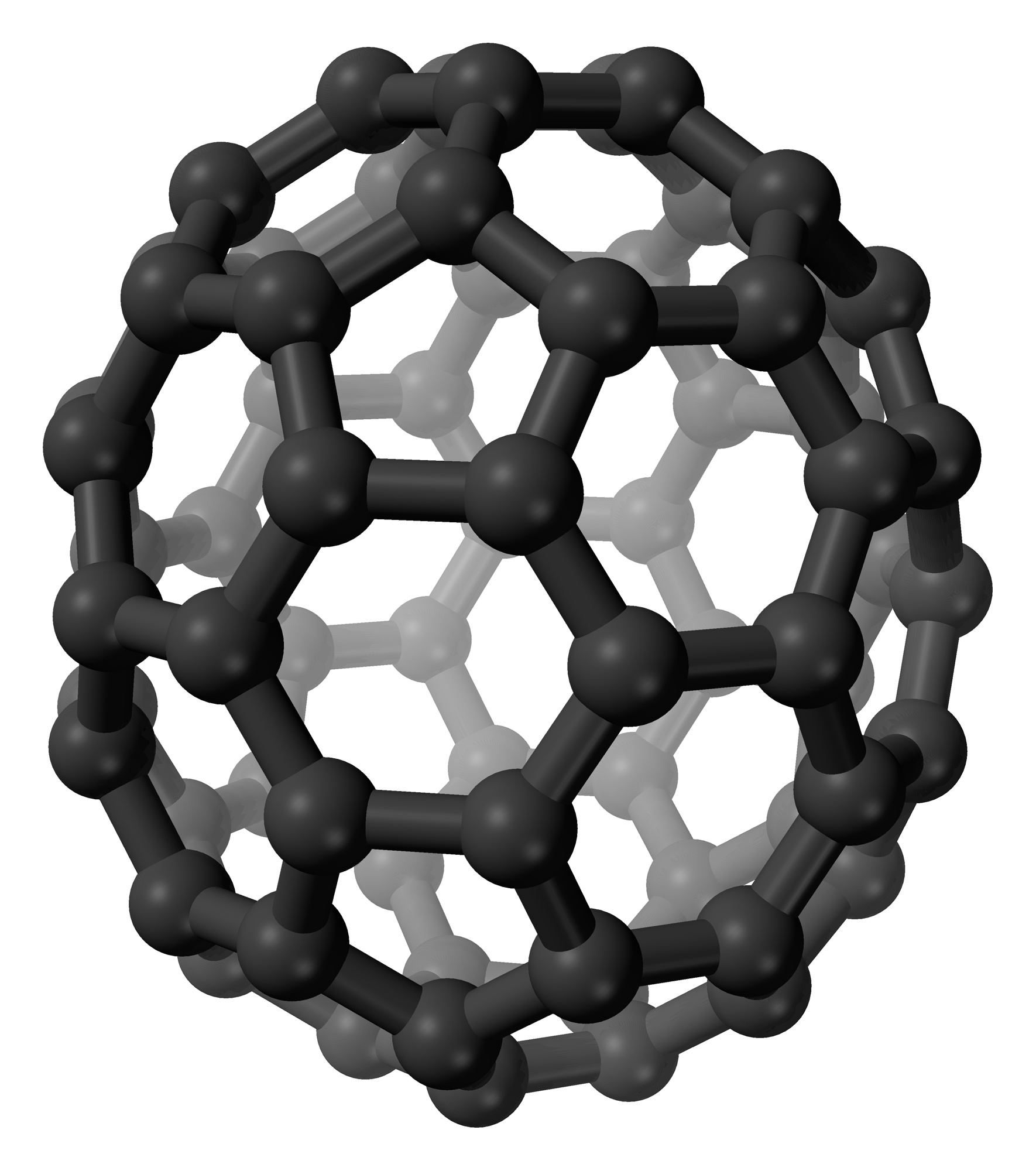 Ball-and-stick model of the C70 fullerene molecule, one of the fullerenes. Colour code: Carbon, C: black